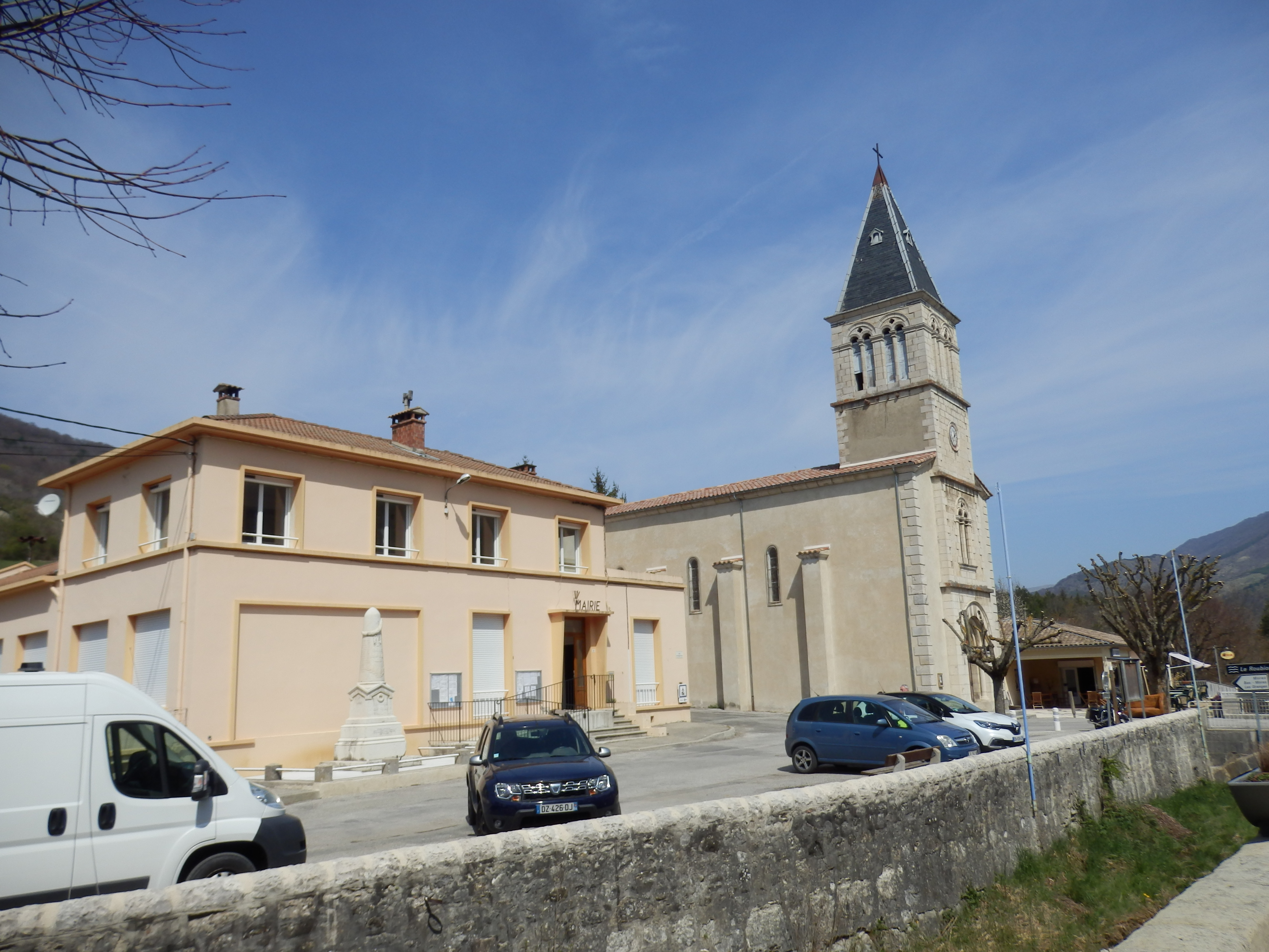 Church and Town Hall, Bouvières, Drôme, France